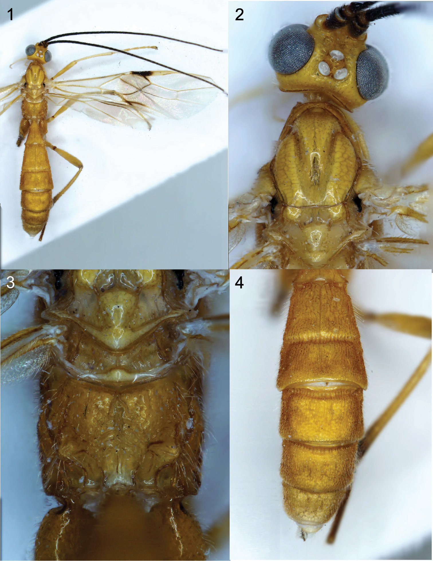 Cystomastacoides kiddo holotype, Cell^D® light photomicrographs. 1 Habitus 2 head and anterior mesosoma, dorsal view 3 propodeum, dorsal view 4 metasomal tergites 2-6, dorsal view.